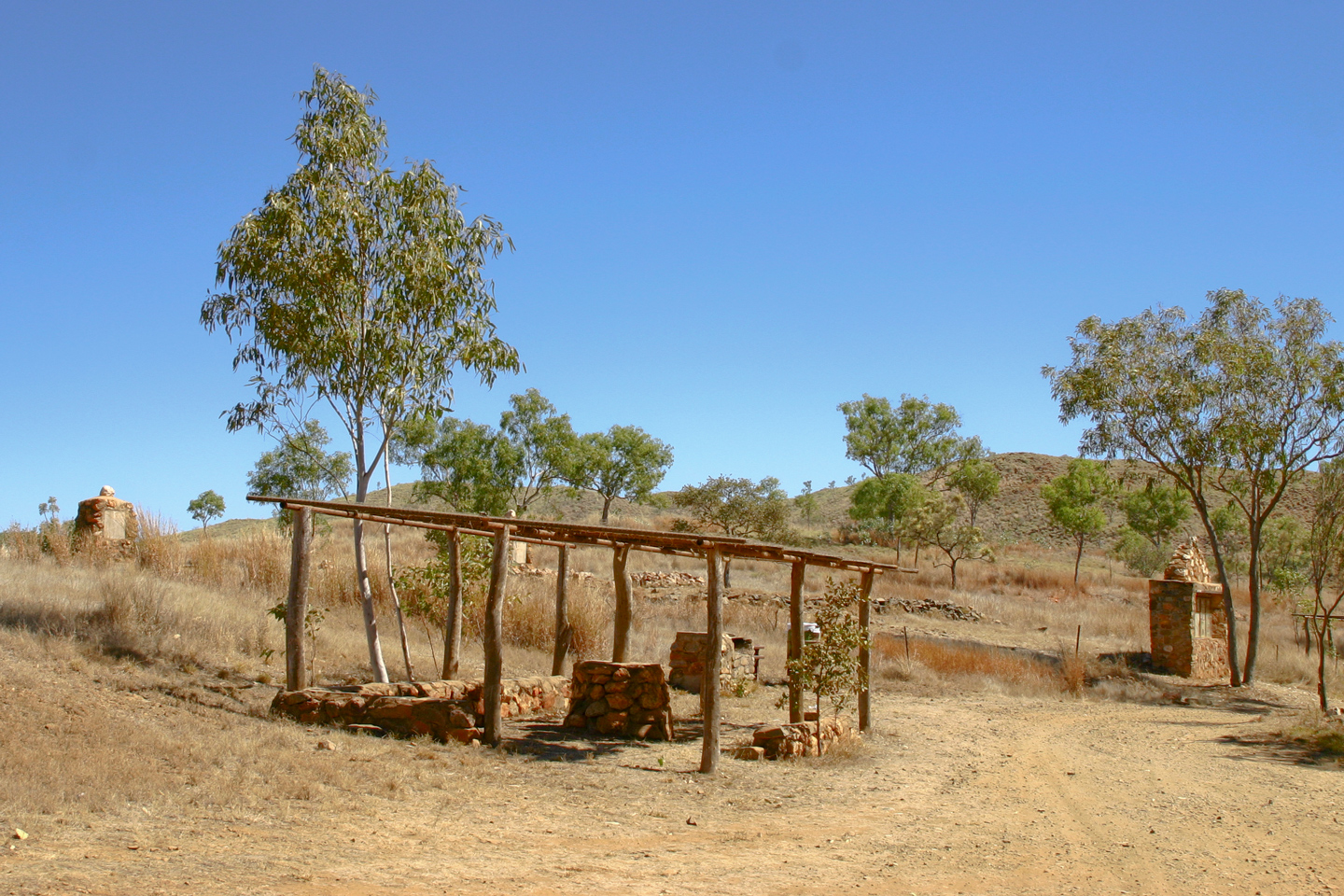 The ruins of Old Halls Creek near Halls Creek, Western Australia, Australia